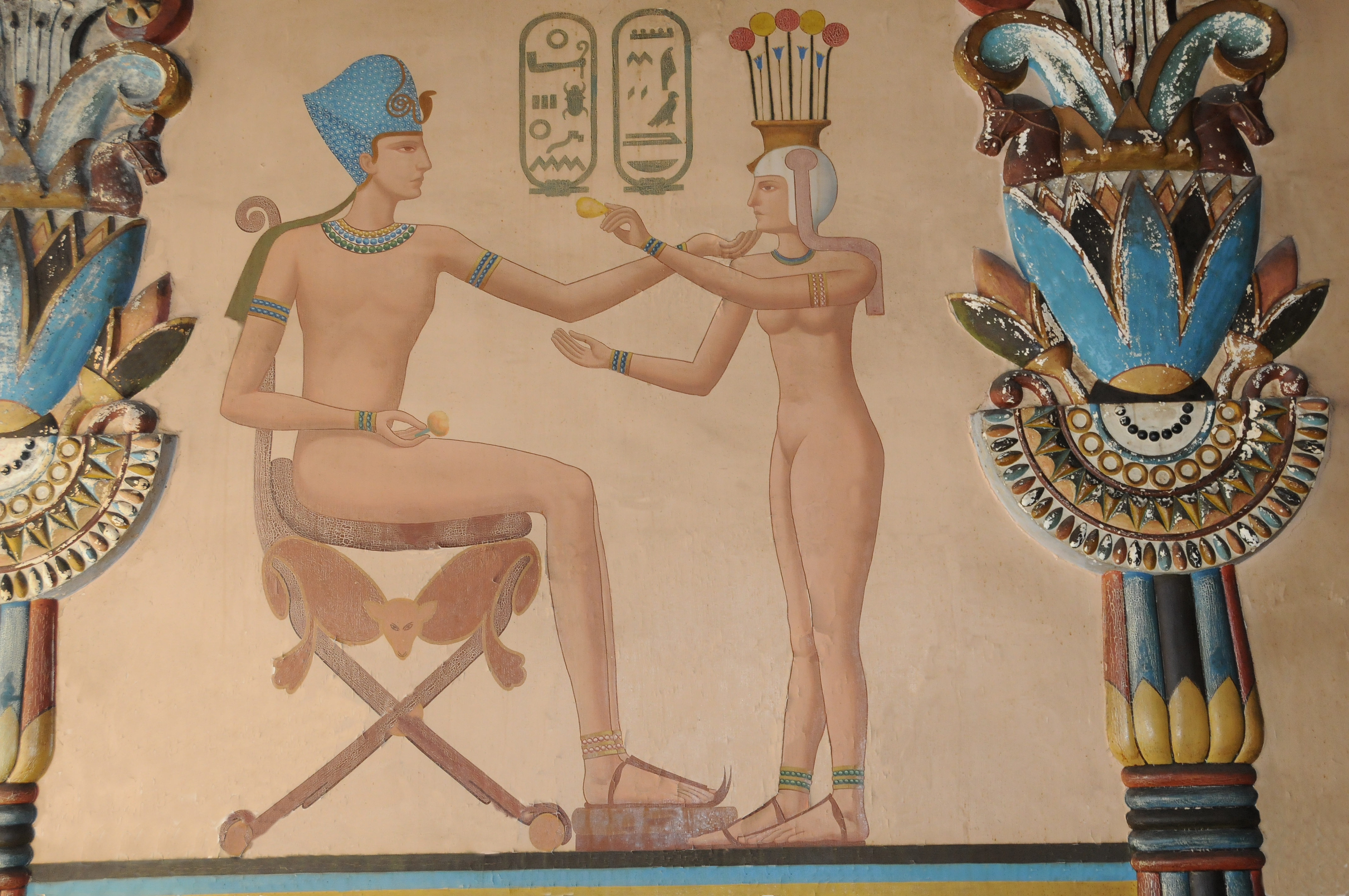 Egyptian Hall in Rua do Souto, Braga, Portugal.